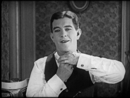 Screen capture of Cliff Bowes from the 1924 film short, Cheer Up